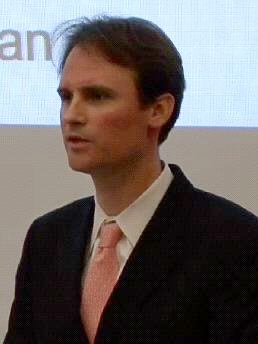 John Palfrey speaking at the Berkman Center in 2008. Image is part of one screenshot of video. Please replace if you have better image.